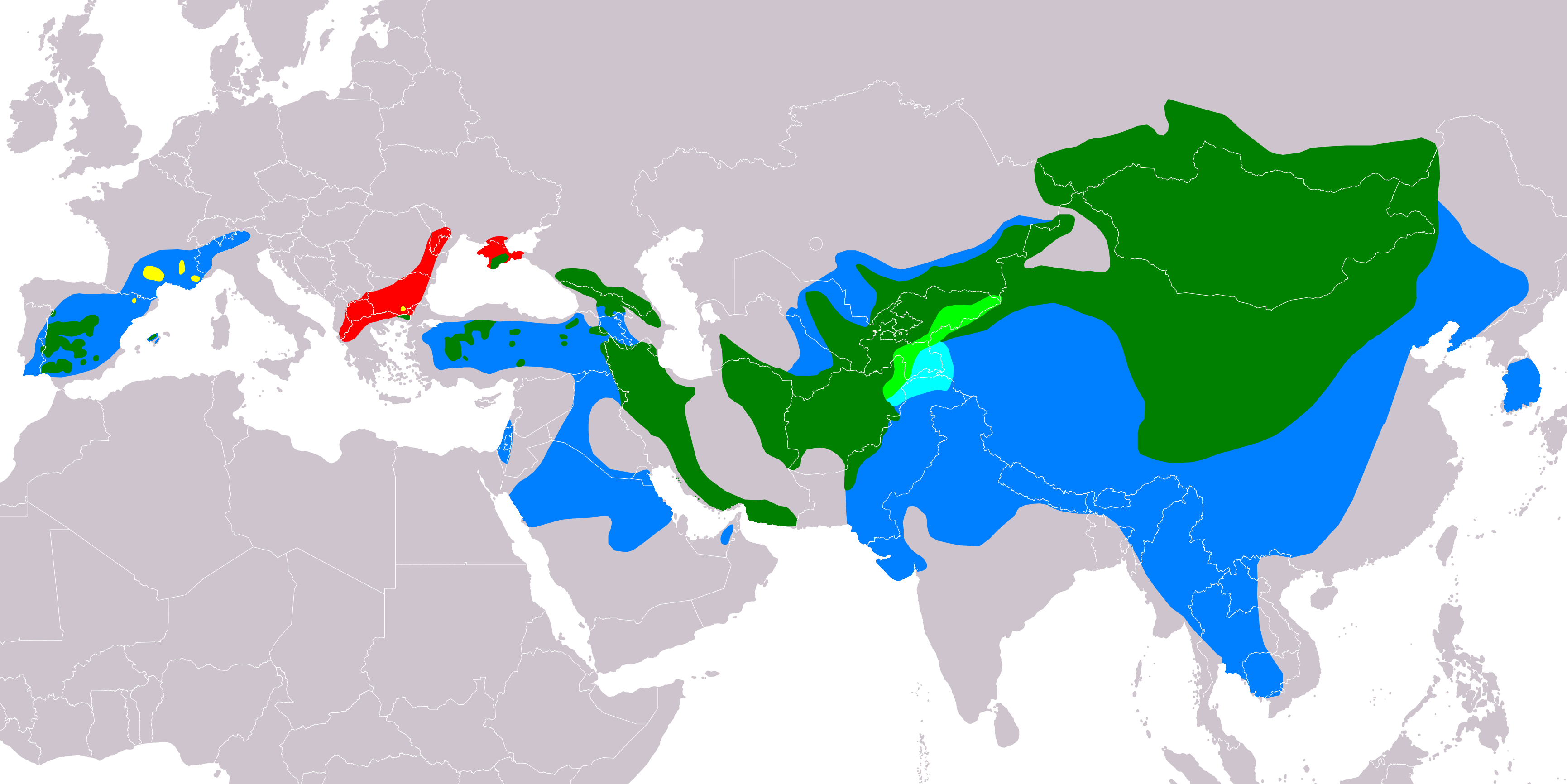 The distribution map of cinereous vulture (Aegypius monachus) according to IUCN version 2019.1; key: Legend: Extant, breeding (#00FF00), Extant, resident (#008000), Extant, passage (#00FFFF), Extant, non-breeding (#007FFF), Extant & Reintroduced (resident) (#FFFF00), Extinct (#FF0000)